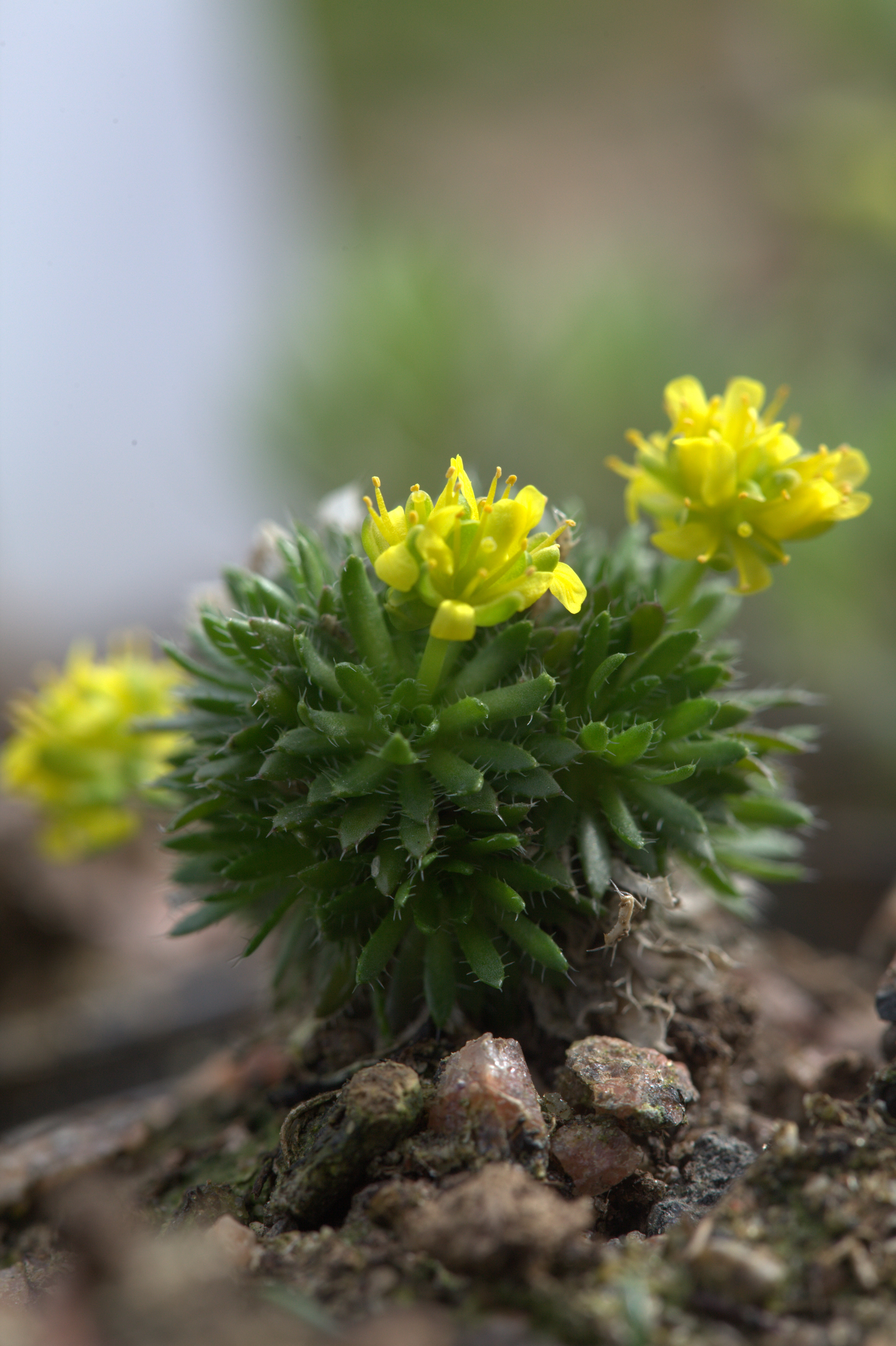 A plant of Draba hoppeana at one of the botanical garden greenhouses in Gotenburg, Sweden. The plant is approximately 2-3 cm tall.